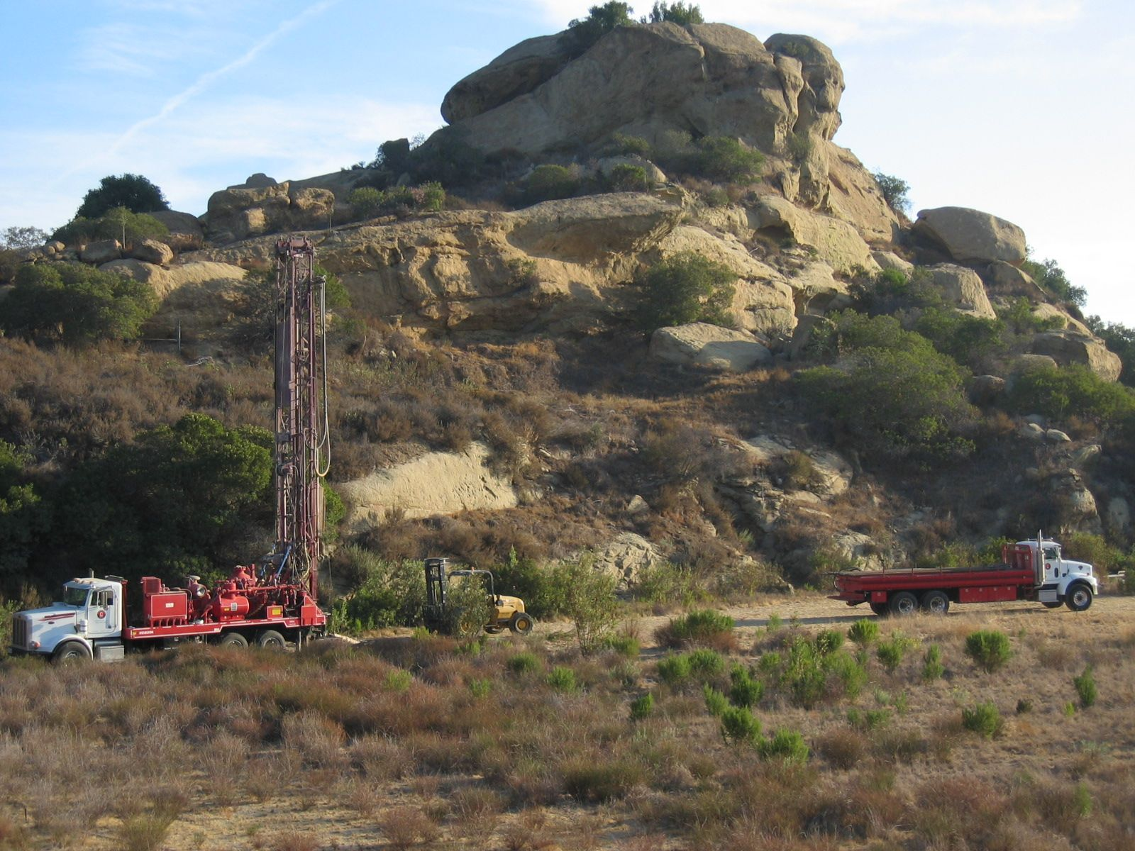 August 2004 sampling for tritium at the former Sodium Reactor Experiment facility site, Santa Susana Field Laboratory, California.